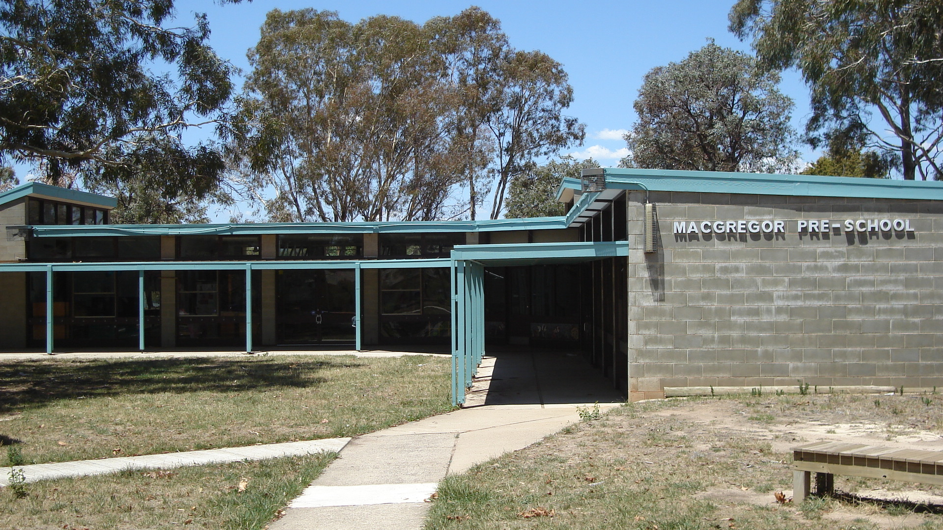 Pre school in Macgregor, Australian Capital Territory. Taken by Joel Wigley on 20th January 2007.